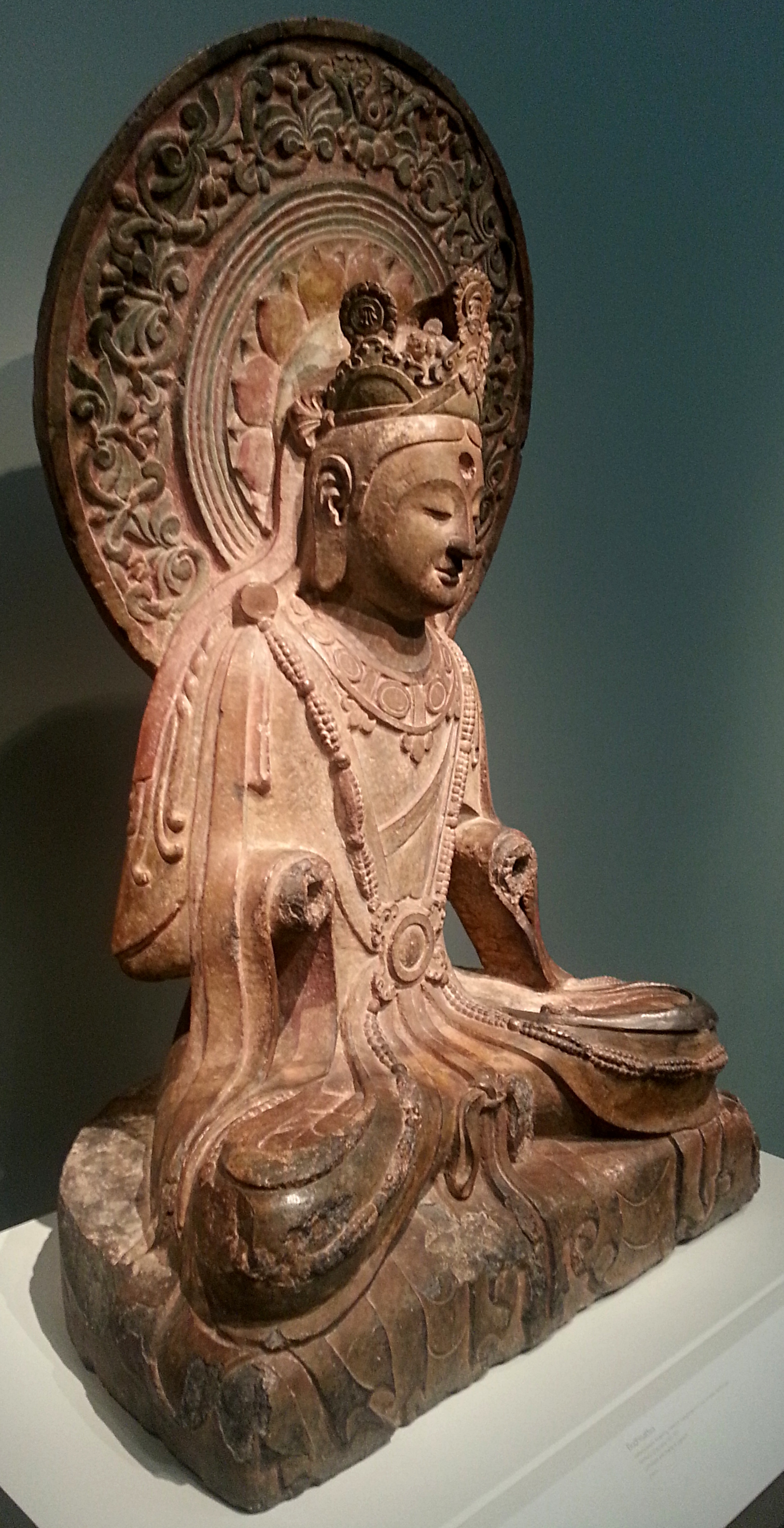 Photograph of a bodhisattva sculpture from the South Cave of the Xiangtangshan Caves at the Freer Gallery of Art, Smithsonian Institution, Washington, DC. The sculpture dates from the Northern Qi dynasty (550-577), is made from limestone, and shows traces of pigment.